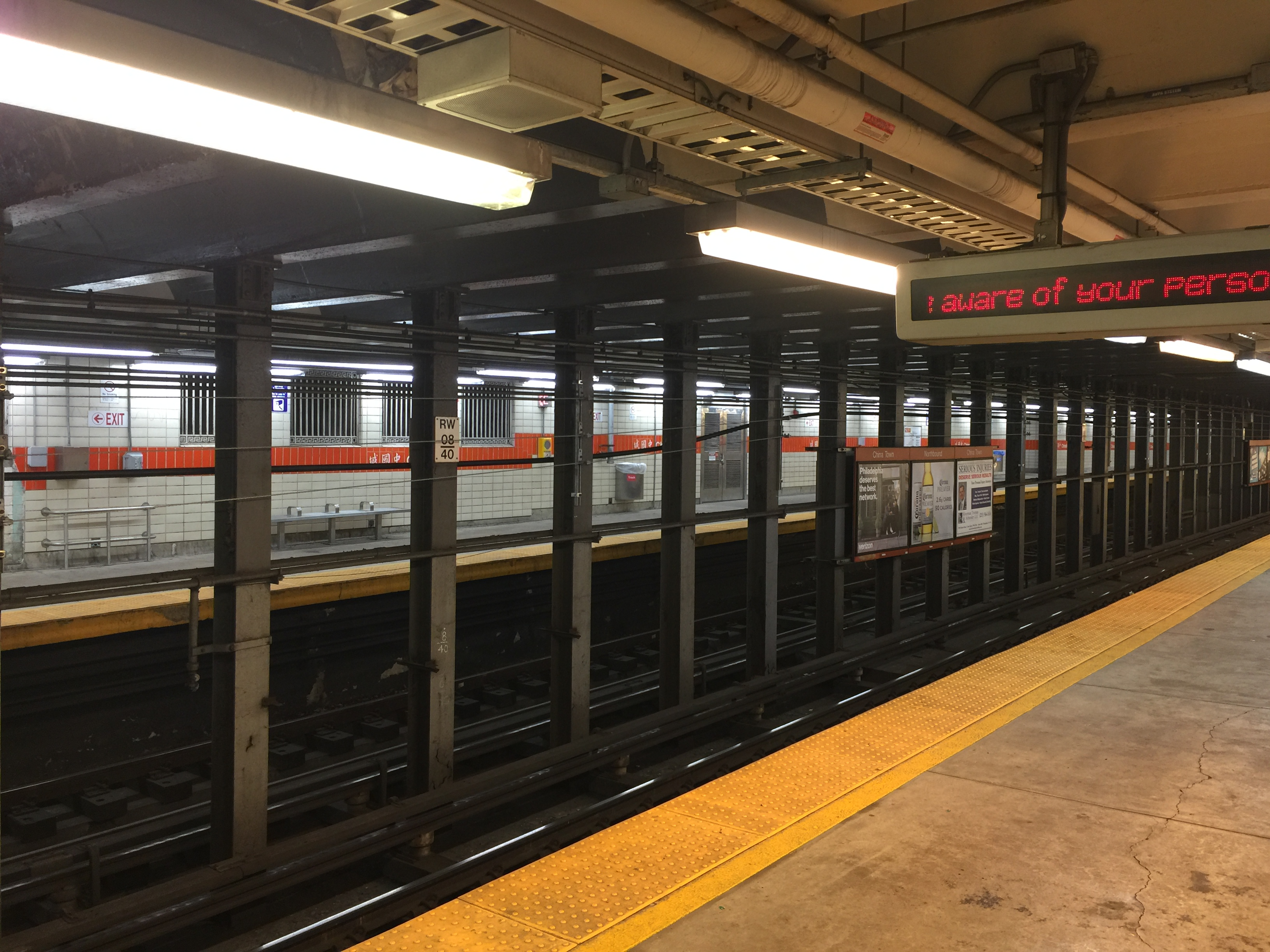 Chinatown